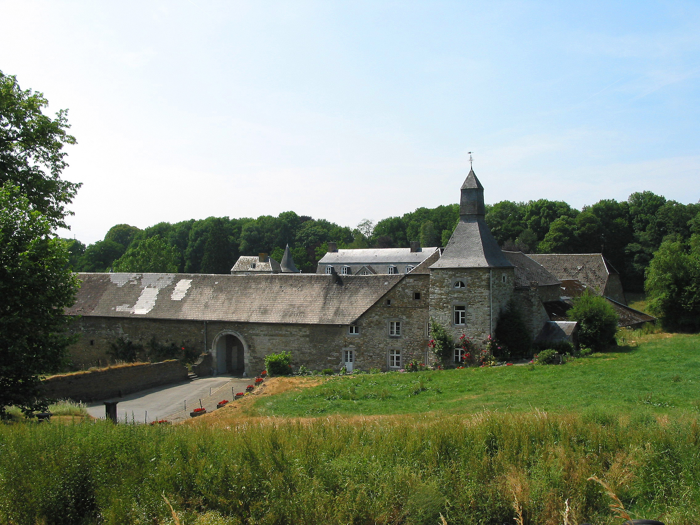 Anthisnes, the "de la Chapelle" castle-farm (XV/XVIIth centuries).